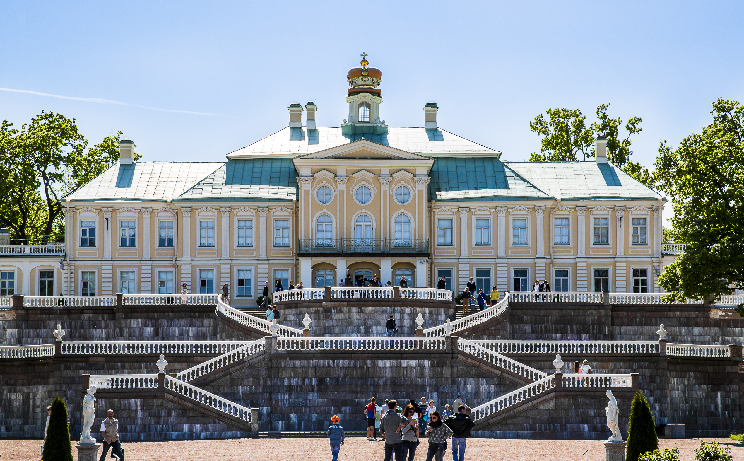 Oranienbaum is a Russian royal residence, located on the Gulf of Finland in Lomonosov town, St-Petersburg (Russia). The Palace ensemble and the city center are UNESCO World Heritage Sites.